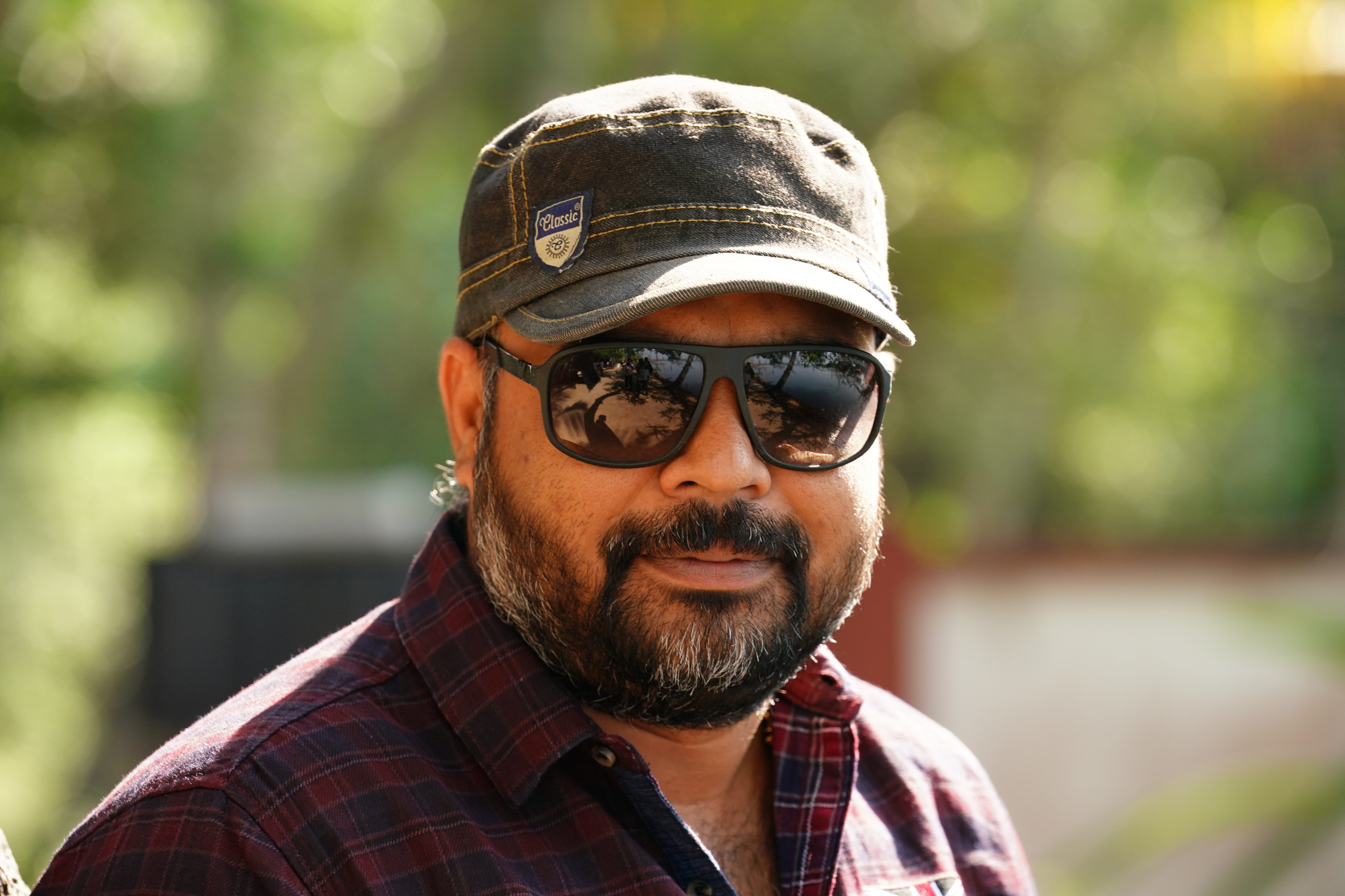 Vysakh is an Indian film director who works in Malayalam film industry